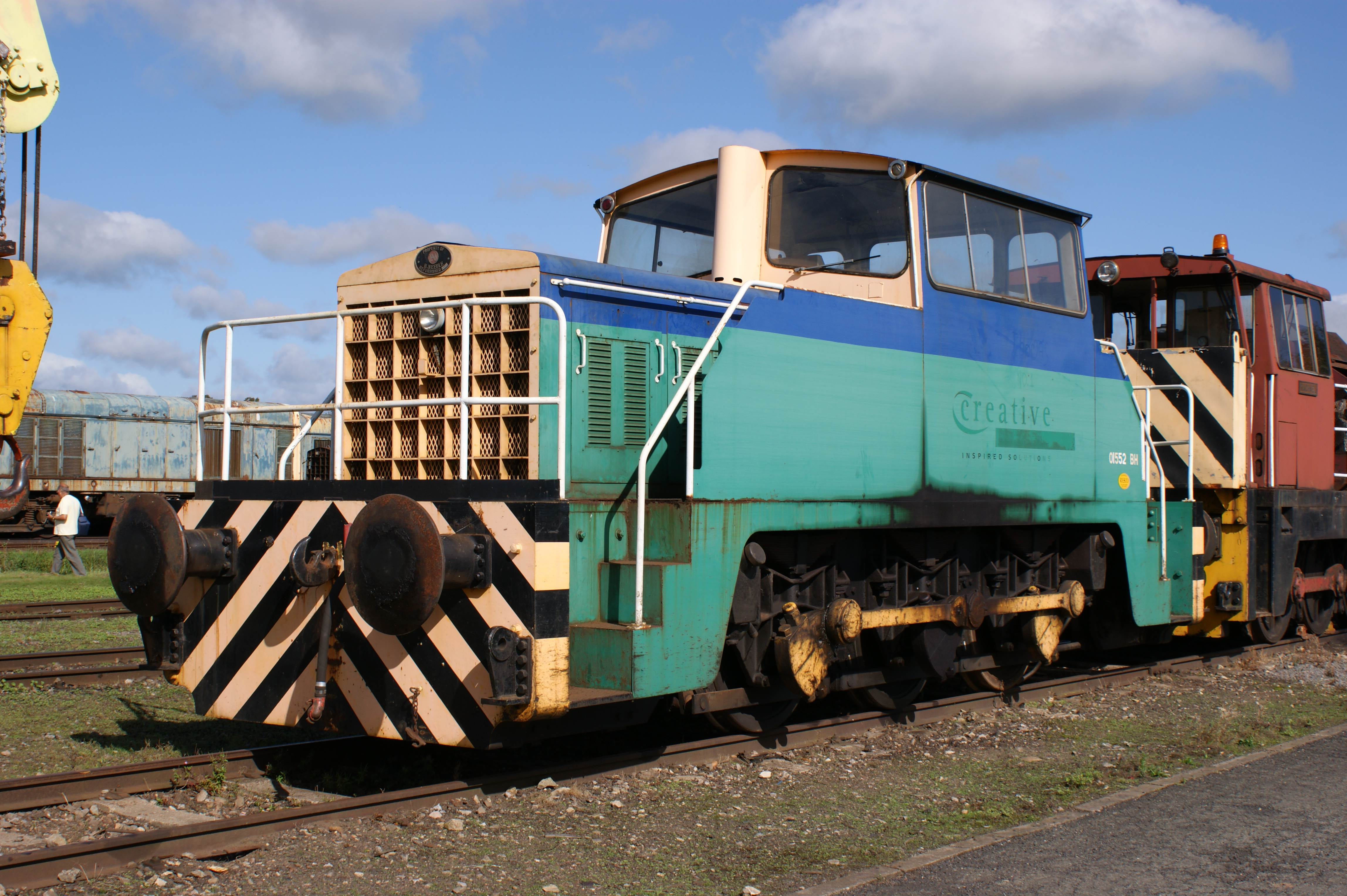 Thomas Hill No.TH167V of 1966, Creative Solutions No.01552, at Long Marston 9/10.